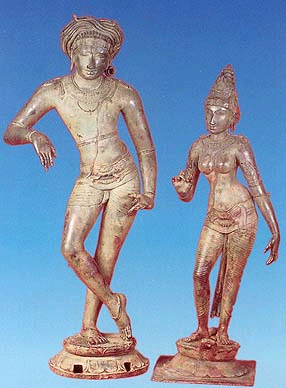 Chola Bronze showing Siva and Parvati. C. 1100 C.E. From my collection of photographs